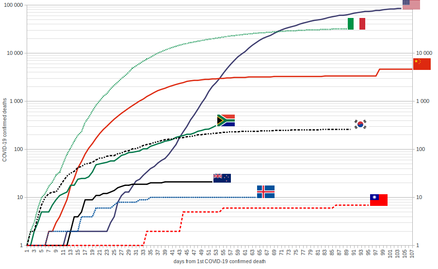 Sources